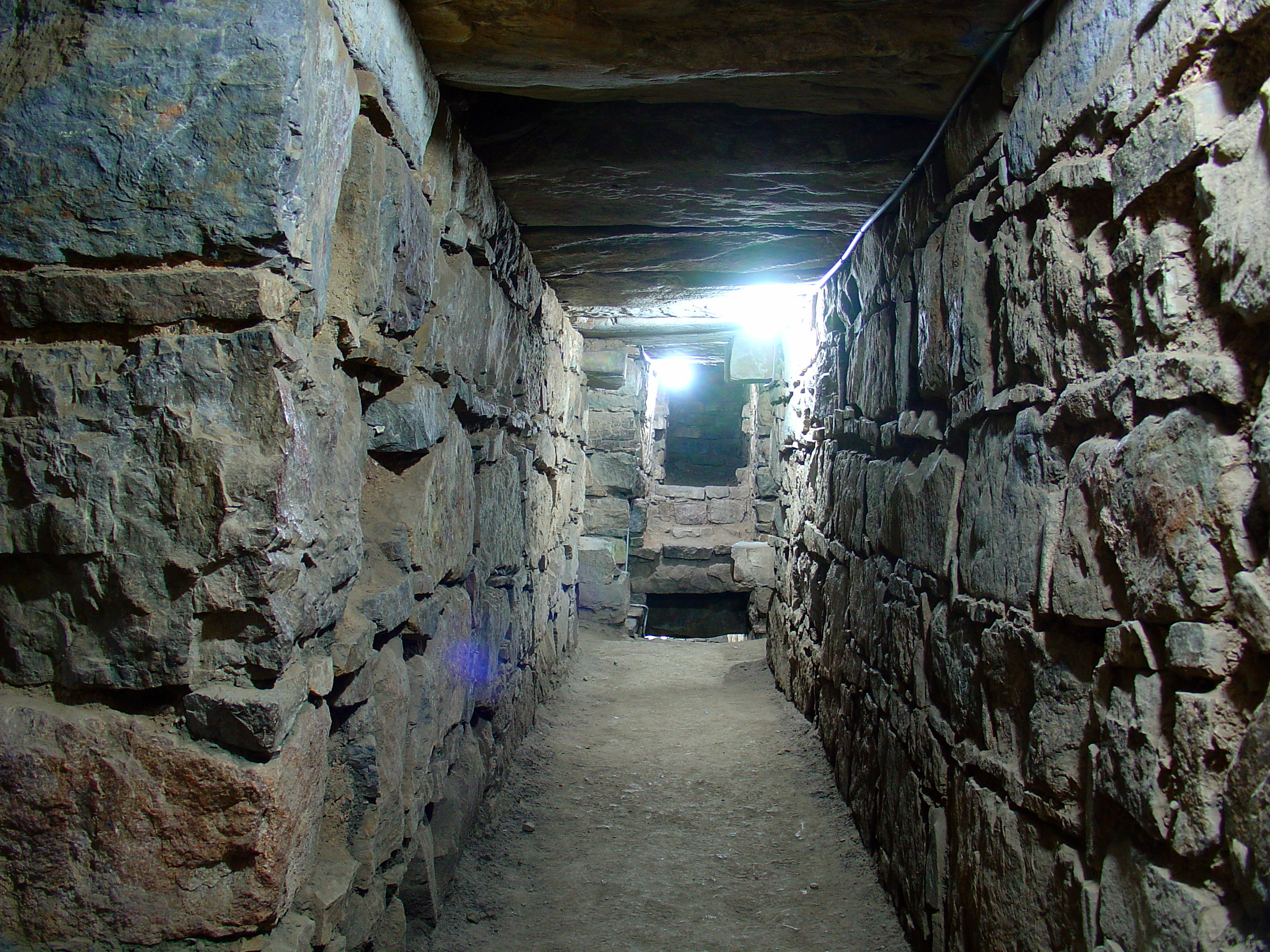 Hallways inside "El Castillo" temple of Chavin, Peru